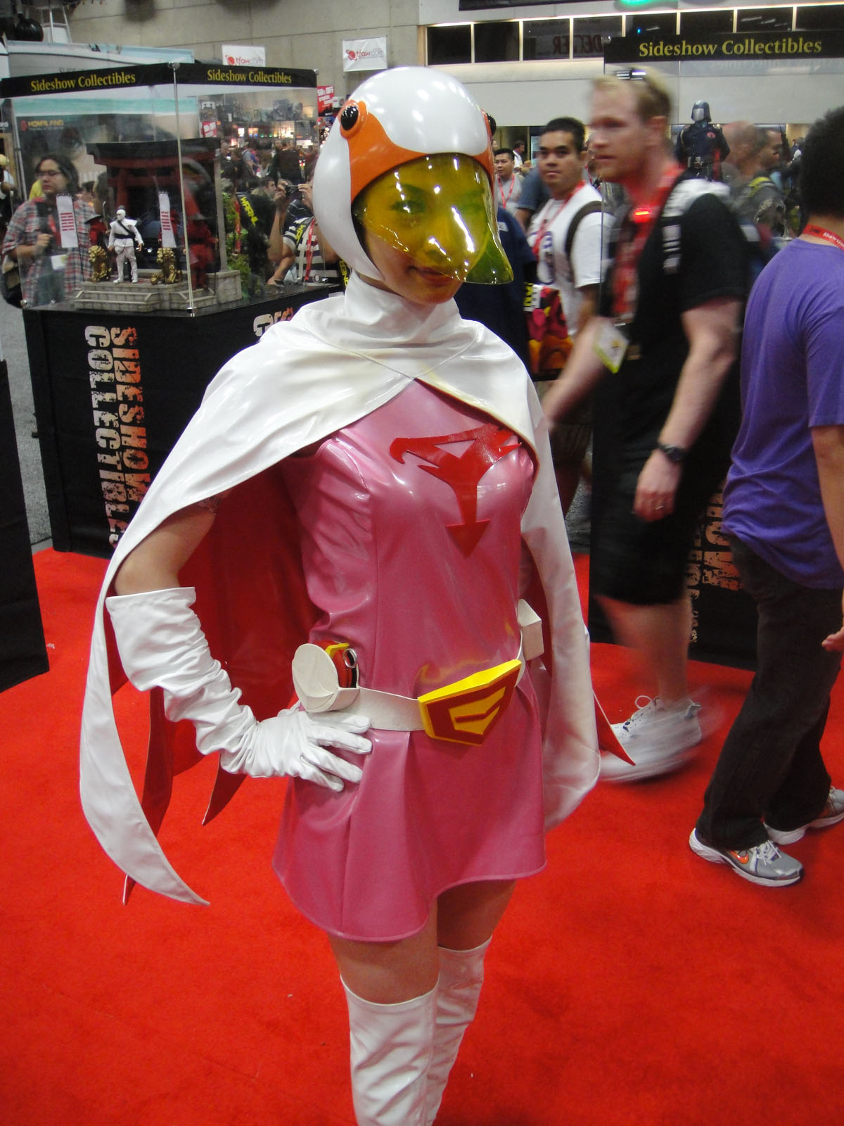 San Diego Comic-Con 2011 - Princess/Jun from Battle of the Planets/G-Force/Gatchaman